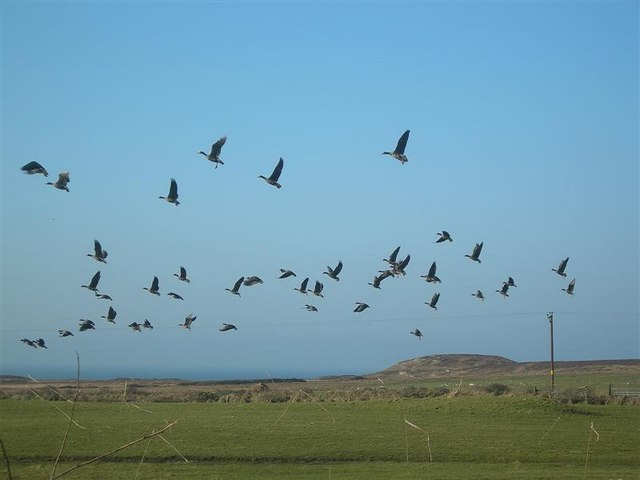 Greenland White-fronted Geese Anser albifrons flavirostris are winter visitors to Islay, these geese had ignored the goose scaring markers visible in the grassy field.